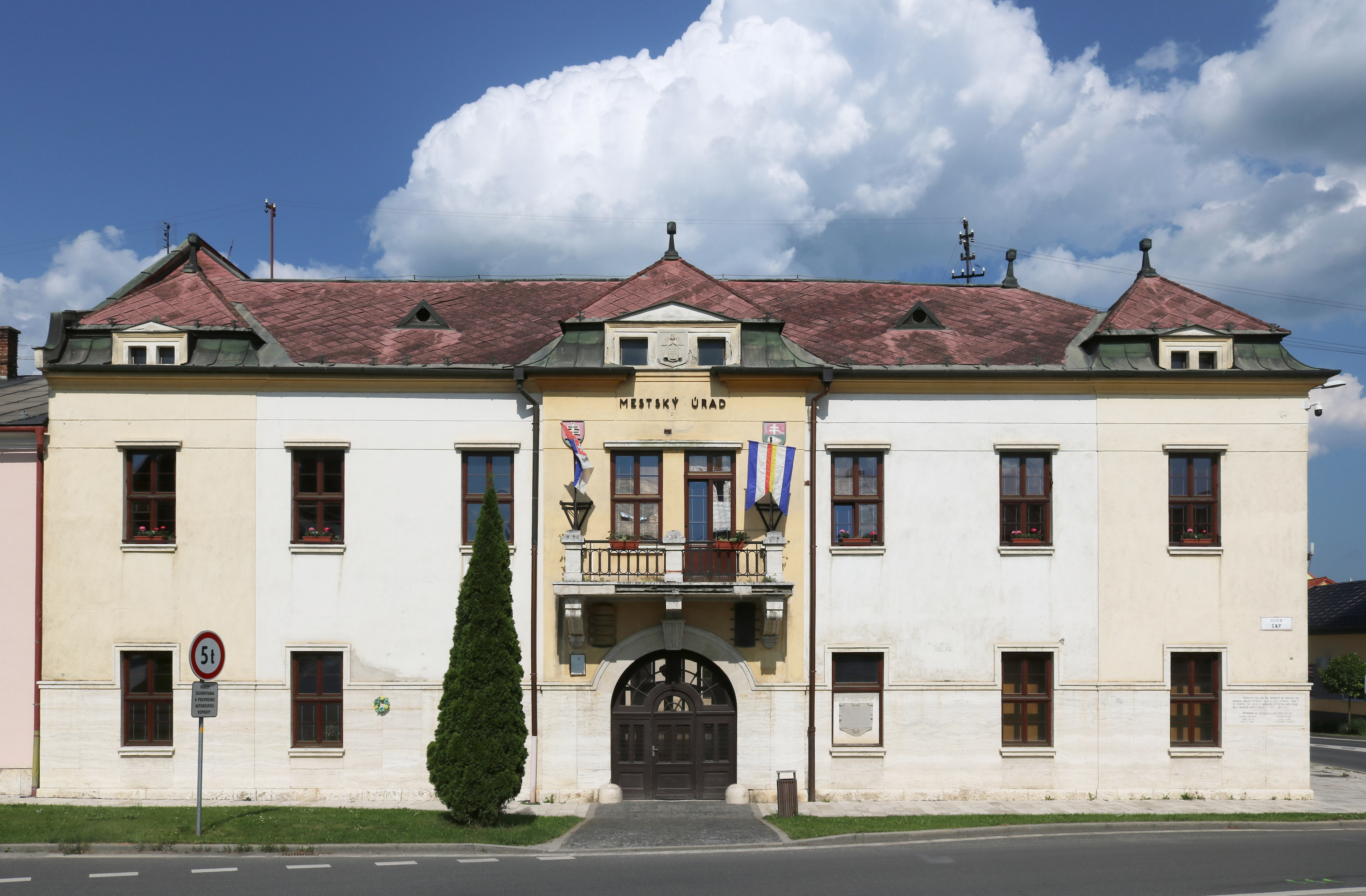 City office / Spišské Vlachy